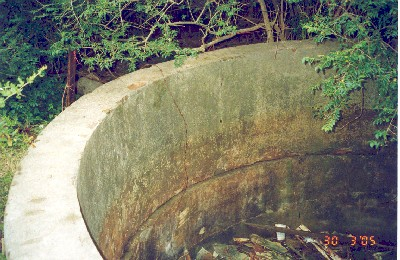 Government Depot Site, Rooty Hill: Part of the concrete-covered brick wall of the underground tank, filled with building debris that may or may not be from the site.